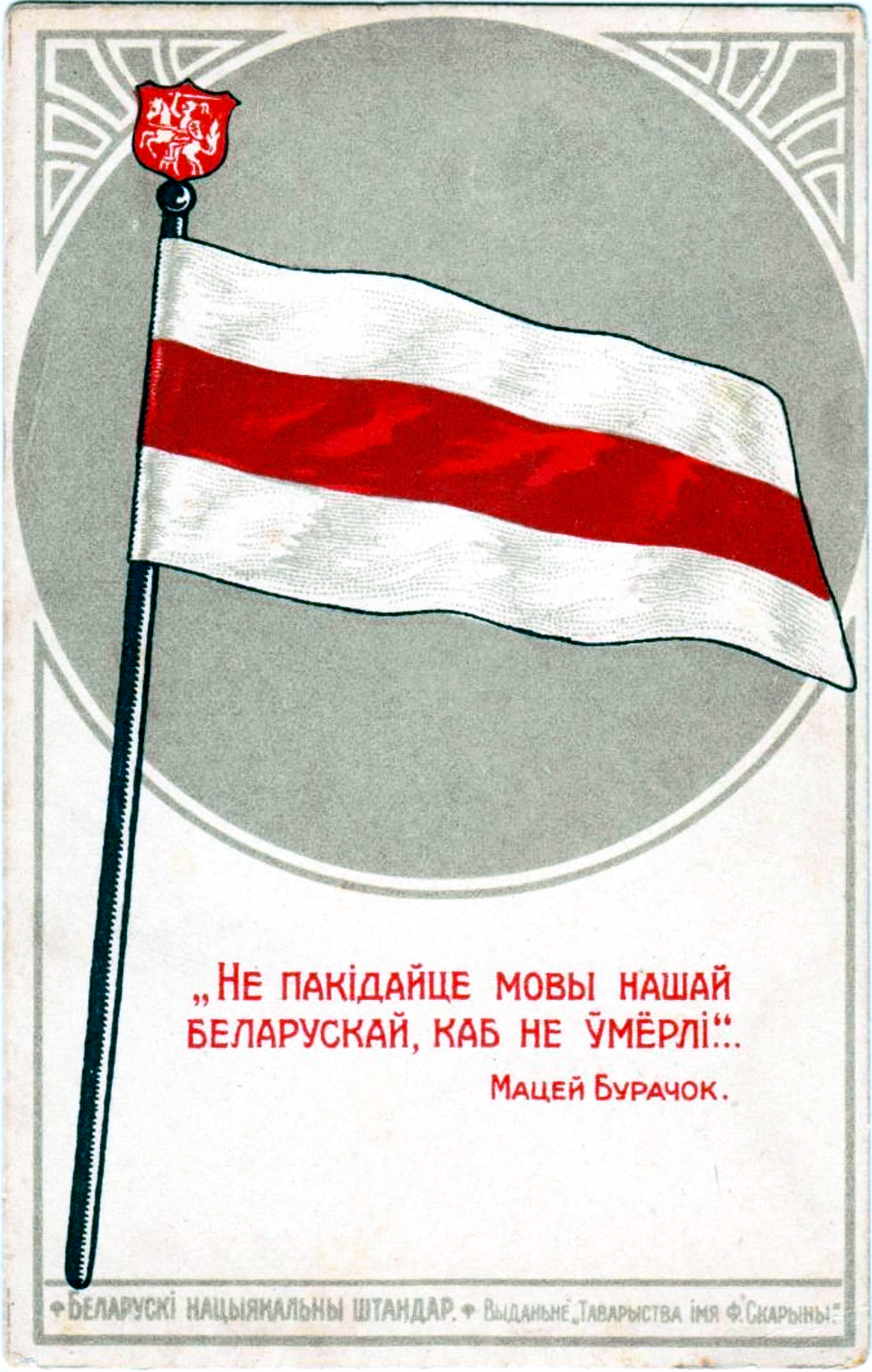 Postcard of BNR